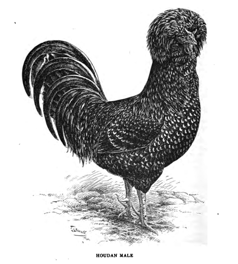 The example illustration of the ideal Houdan male chicken from the American Poultry Association's Standard of Perfection circa 1905.